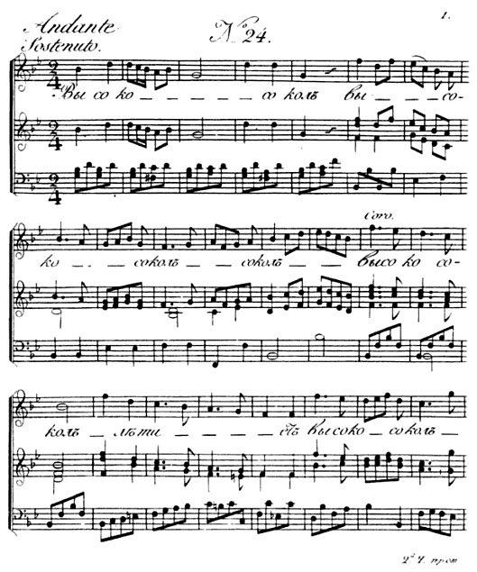 Sheet music to Vysoko sokol... recorded by Nikolay Lvov, transcribed by Jan Pratsch.